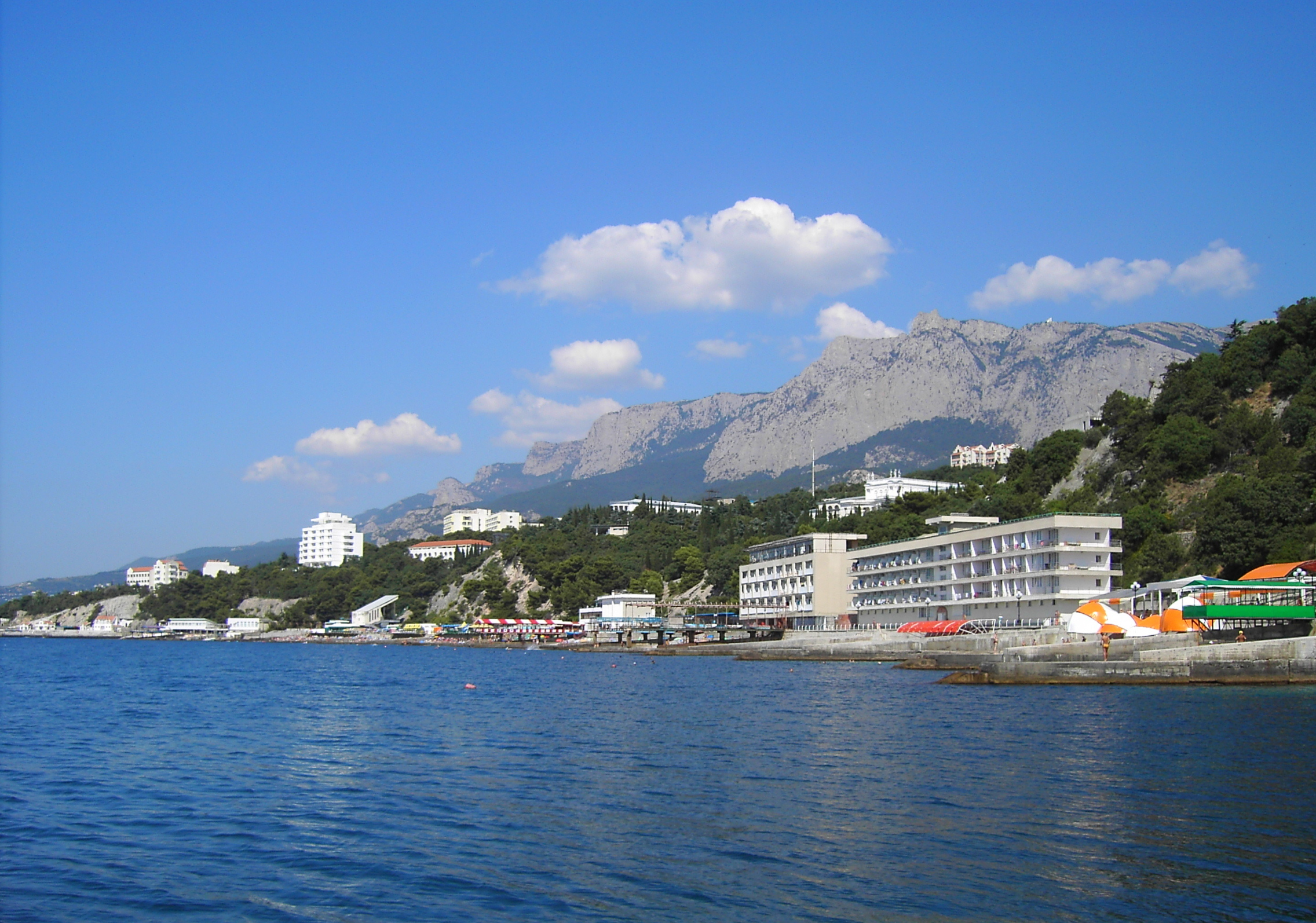 View of a resort beach in Haspra. I took this photo on August 22, 2005